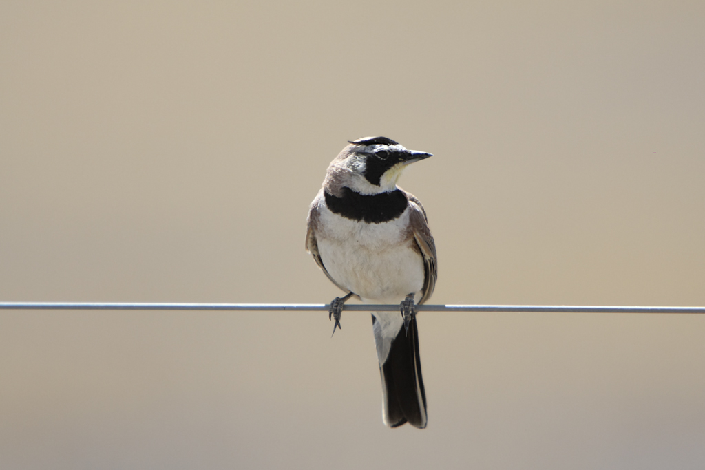 Horned Lark Eremophila alpestris actia, Carrizo Plains, San Luis Obispo, California.